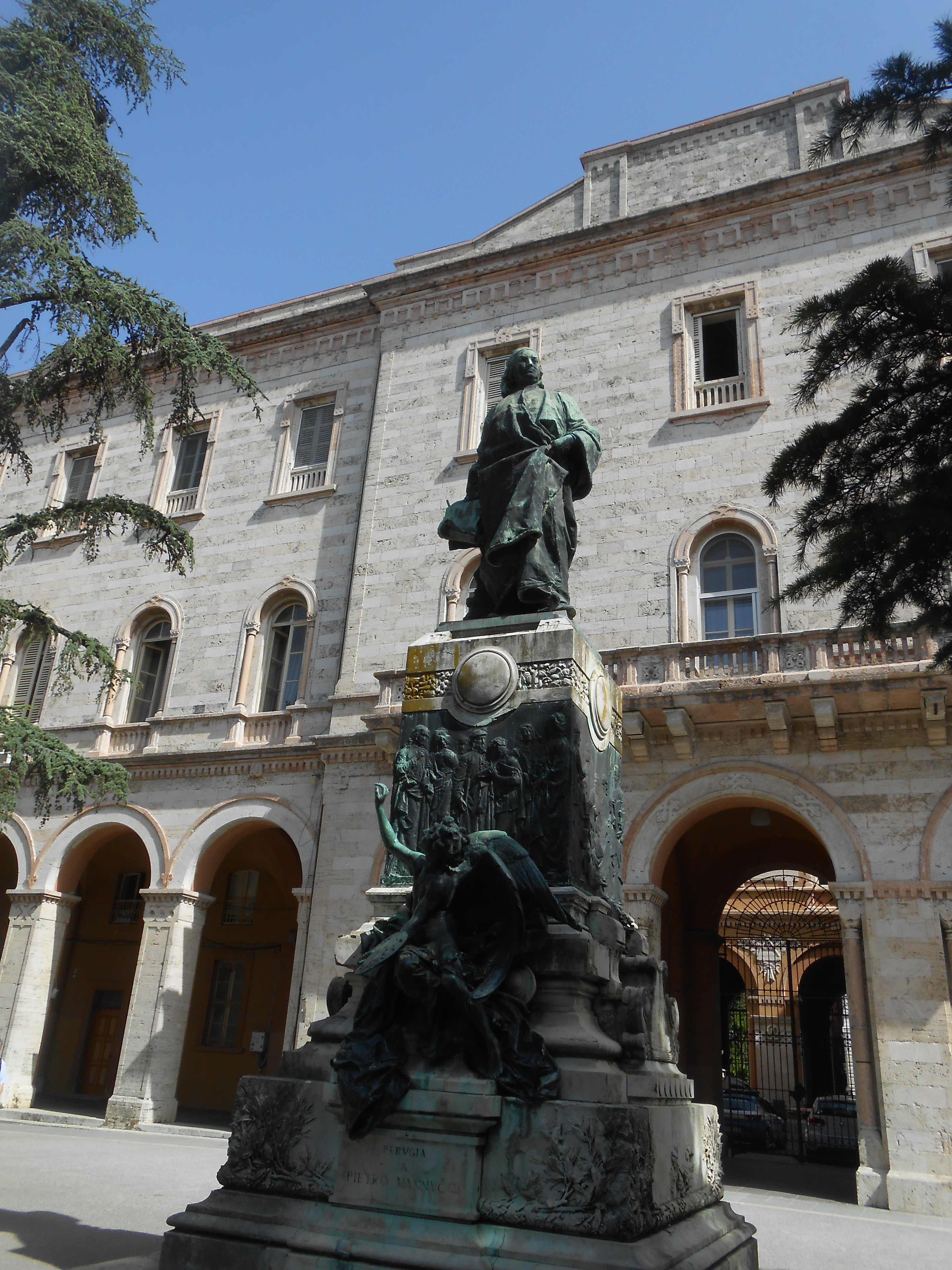 monument to the Italian Renaissance painter Pietro Perugino (Pietro Vannucci), Perugia